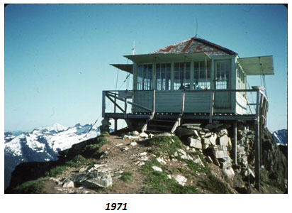 Lookout at the top of Green Mountain, Glacier Peak Wilderness, preserved by S.404 - Green Mountain Lookout Heritage Protection Act, 113th U.S. Congress, 2014